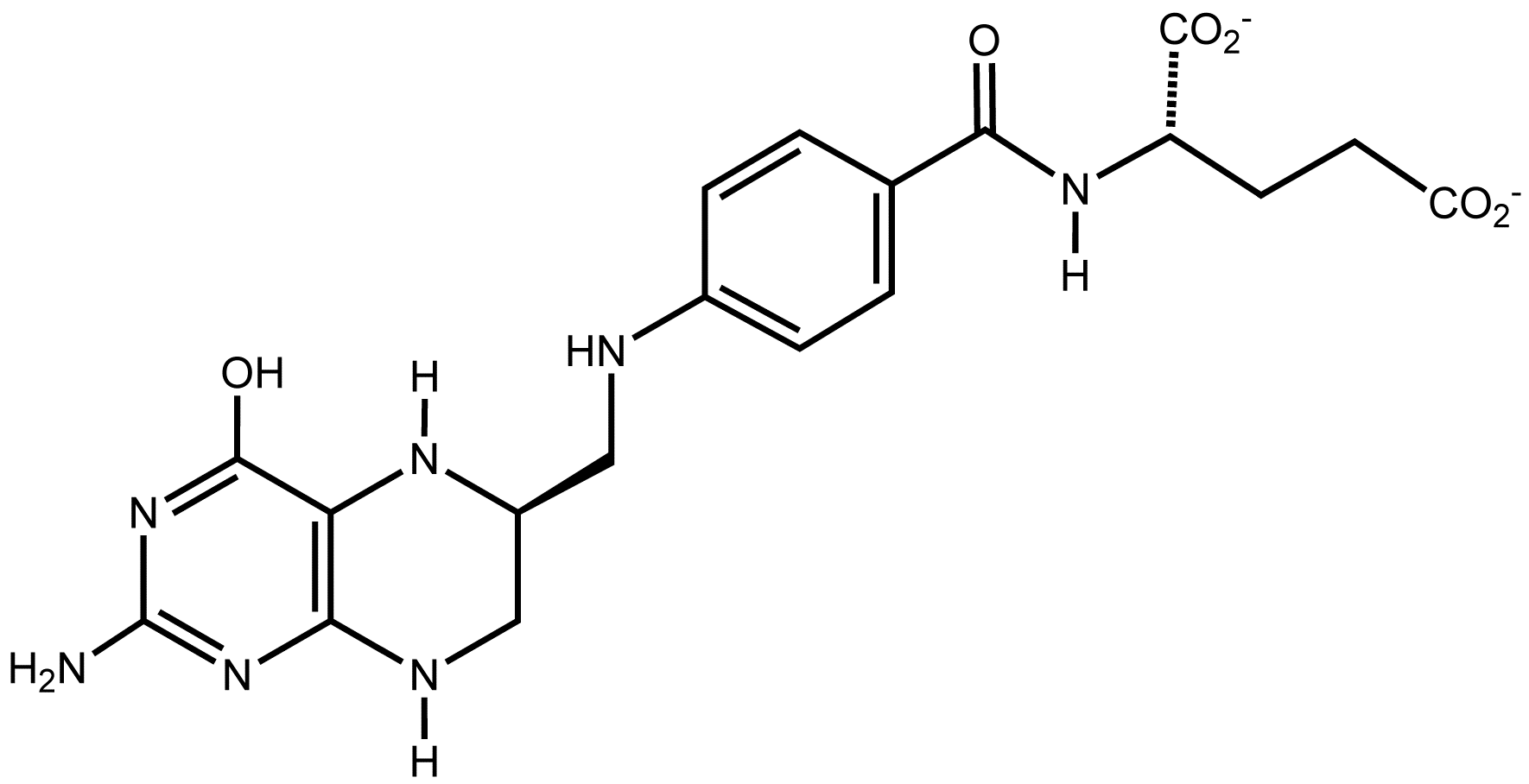 Chemical structure of Tetrahydrofolate.